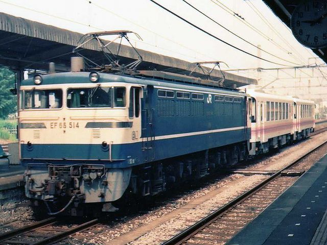 JR Freight class EF65 electric locomotive EF65 515 hauling Kashima Railway type KR-500 diesel cars through Shinmachi Station